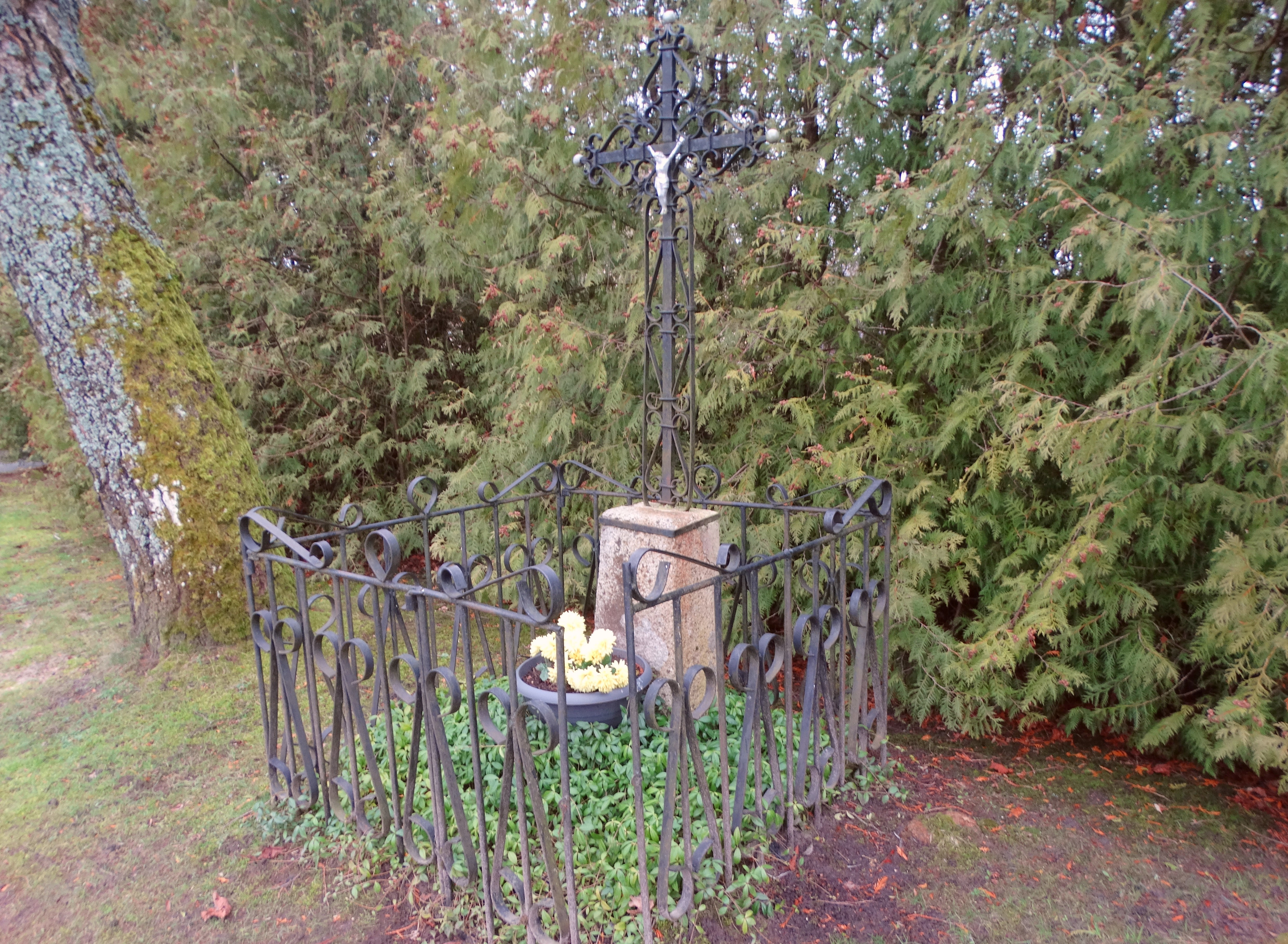 Baubliai, Kretinga District, Lithuania